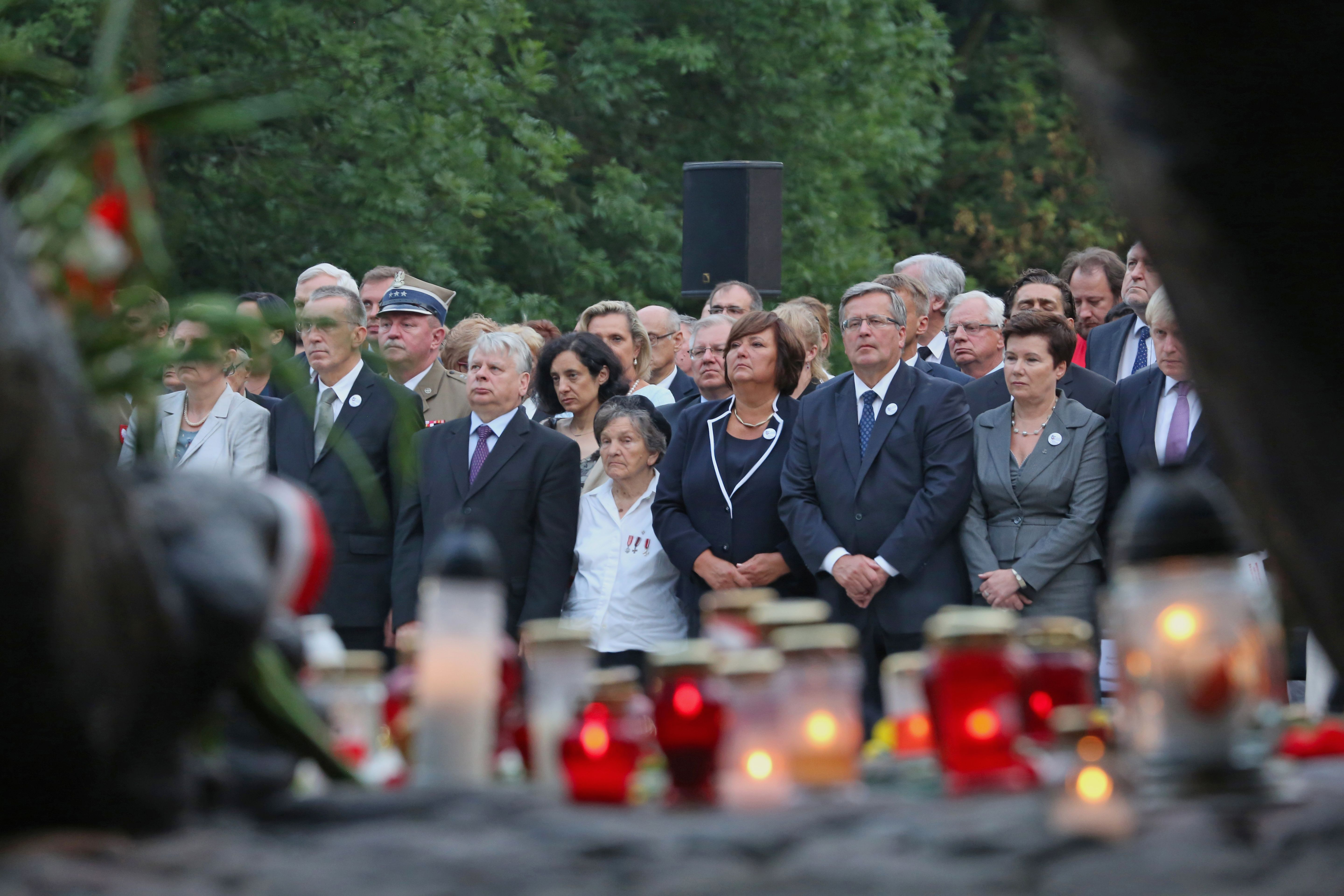 70th anniversary of the Warsaw Uprising celebrations at Polegli Niepokonani Monument in Warsaw